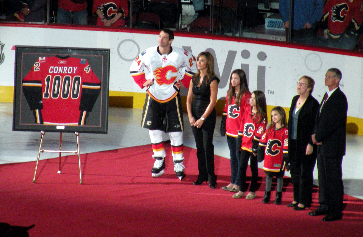 Calgary Flames forward Craig Conroy is honoured for playing his 1000th National Hockey League game. He is pictured with his parents, wife and daughters.